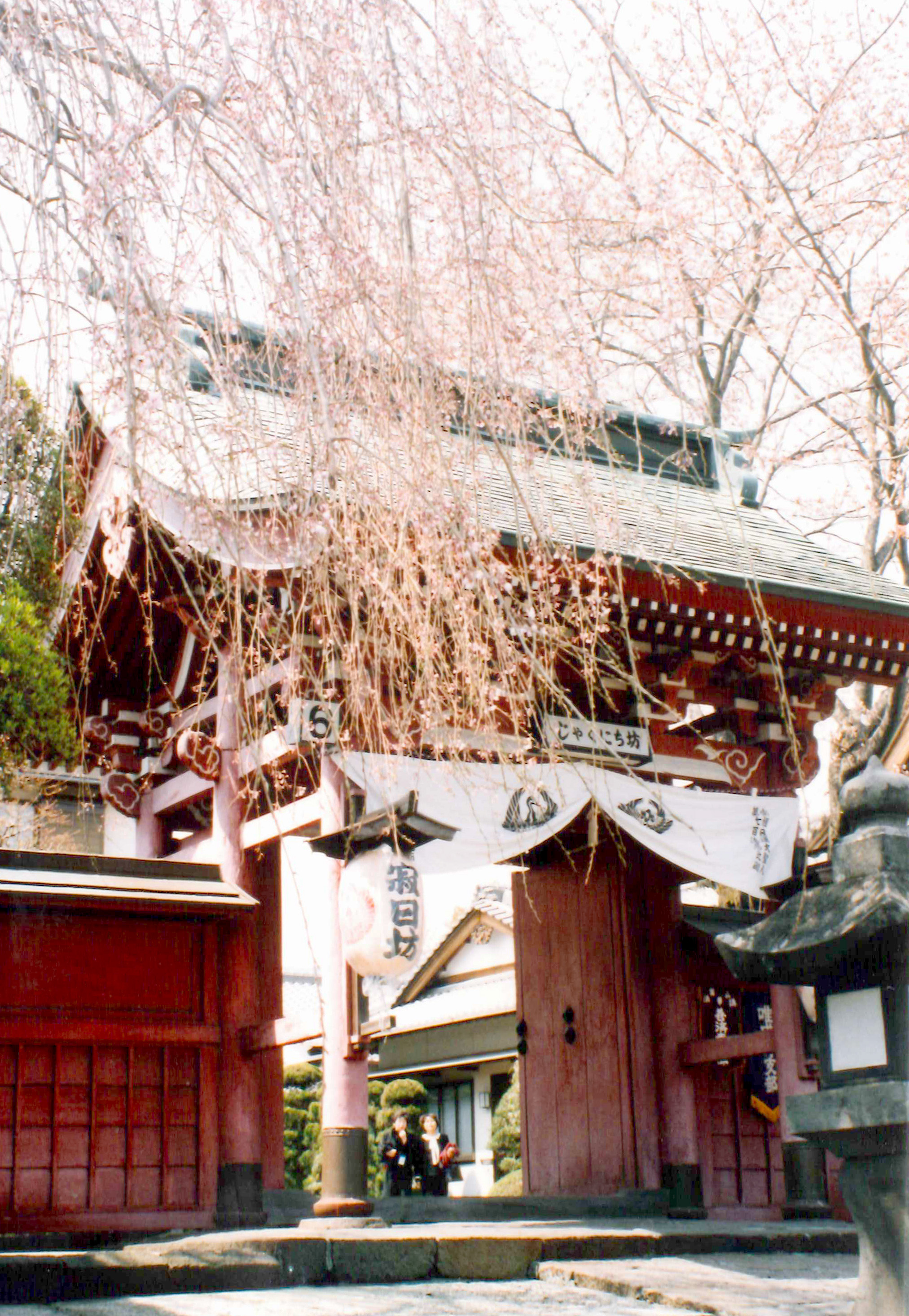 Jyakunichi-bō of Taiseki-ji in 1996.